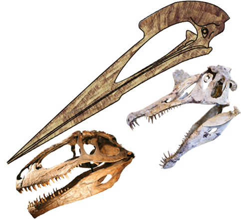 Skulls length comparison of Hatzegopteryx (3 m) on top, Giganotosaurus (1.5 m) at left and Spinosaurus (1.5 m) at right .